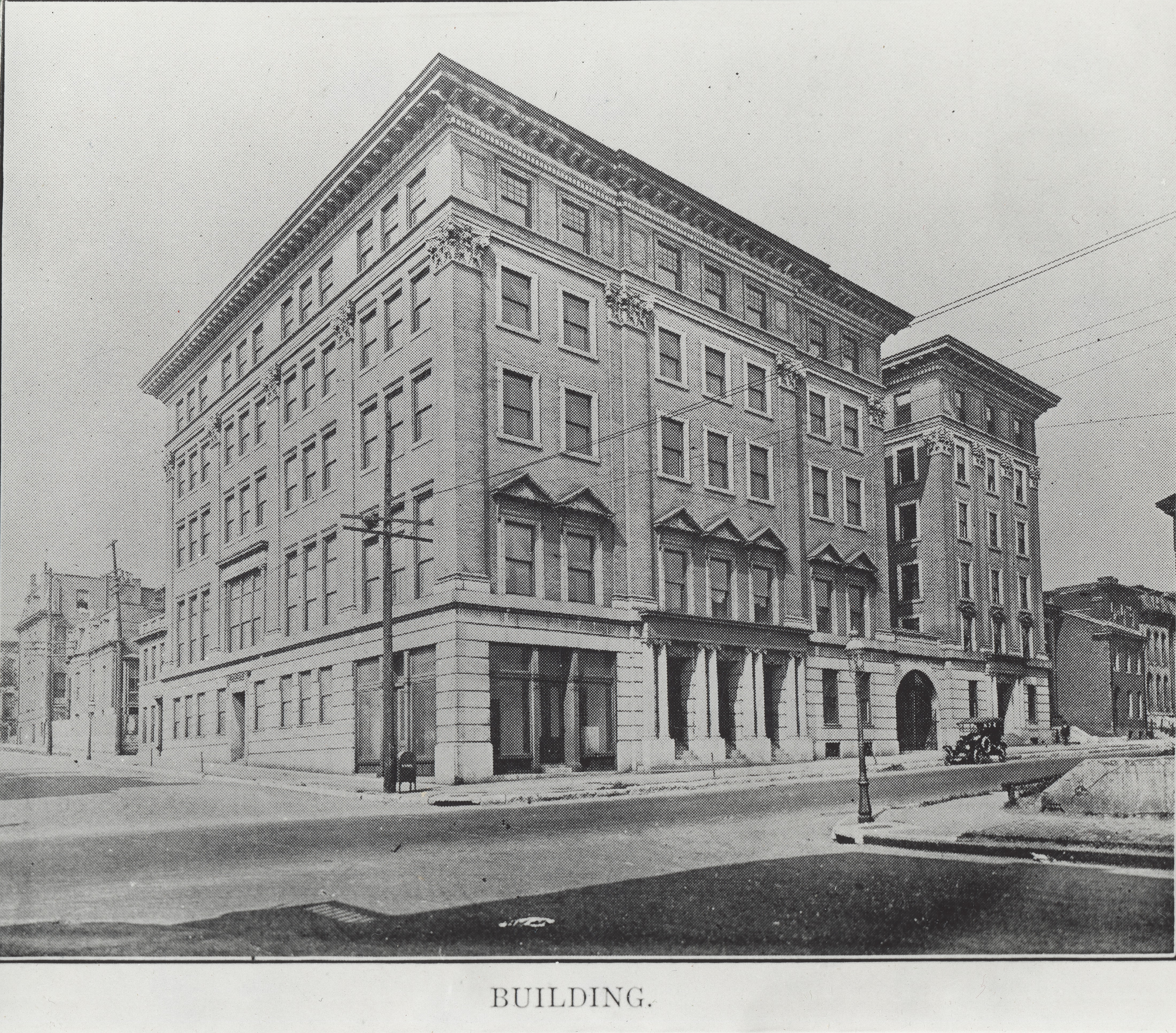 Title: City Hospital # 2, 2945 Lawton Boulevard.